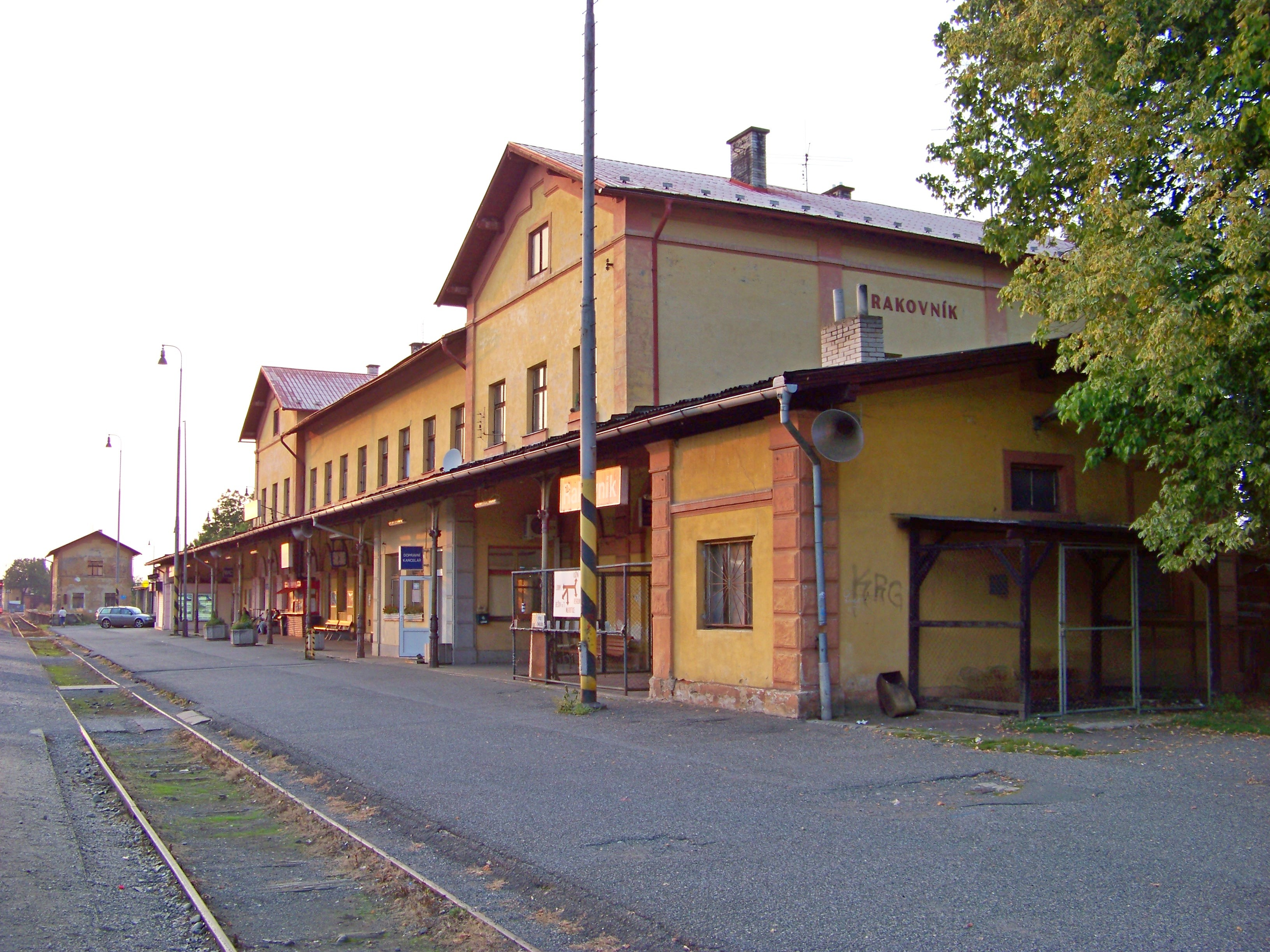 Rakovník II, Rakovník District, Central Bohemian Region, the Czech Republic. Train station Rakovník.